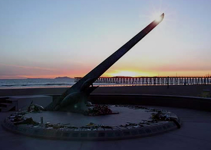 Sundial memorial for the Alaska Airlines Flight 261 crash, January 31, off the coast of California.